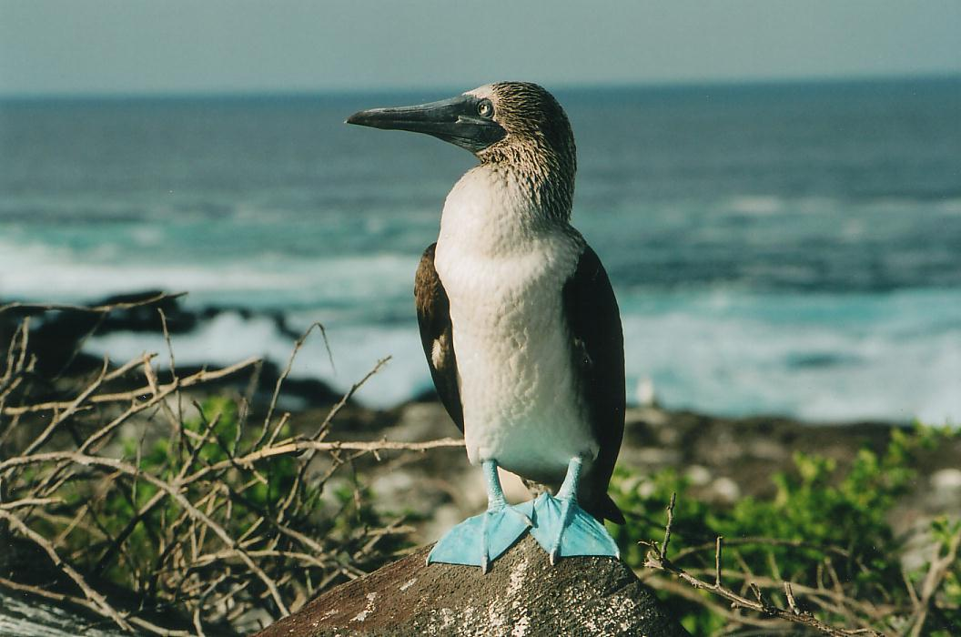 Blue-footed Booby, taken in the Galapagos Islands in March 2004. camera - canon eos30. lens - canon 28-135 f3.5-4.5USM.